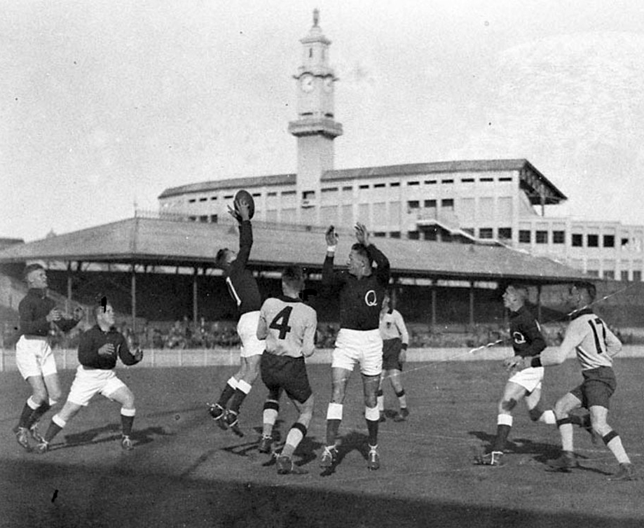 Photohraph of New South Wales v. Queensland at the 1933 Australian National Football Council Interstate Carnival, Sydney Cricket Ground.